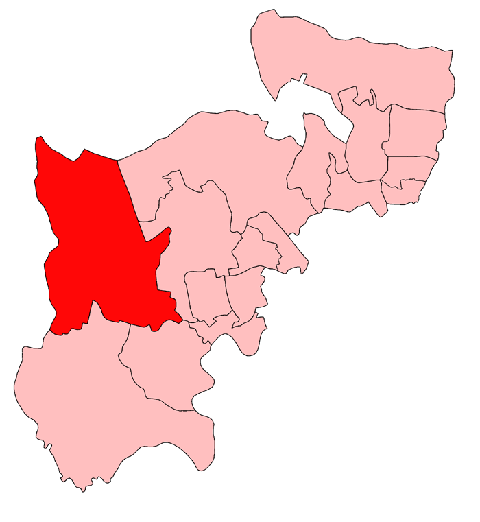 A map of Uxbridge constituency within Middlesex, as it existed from 1918 to 1945.